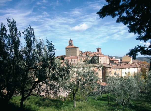 countryside